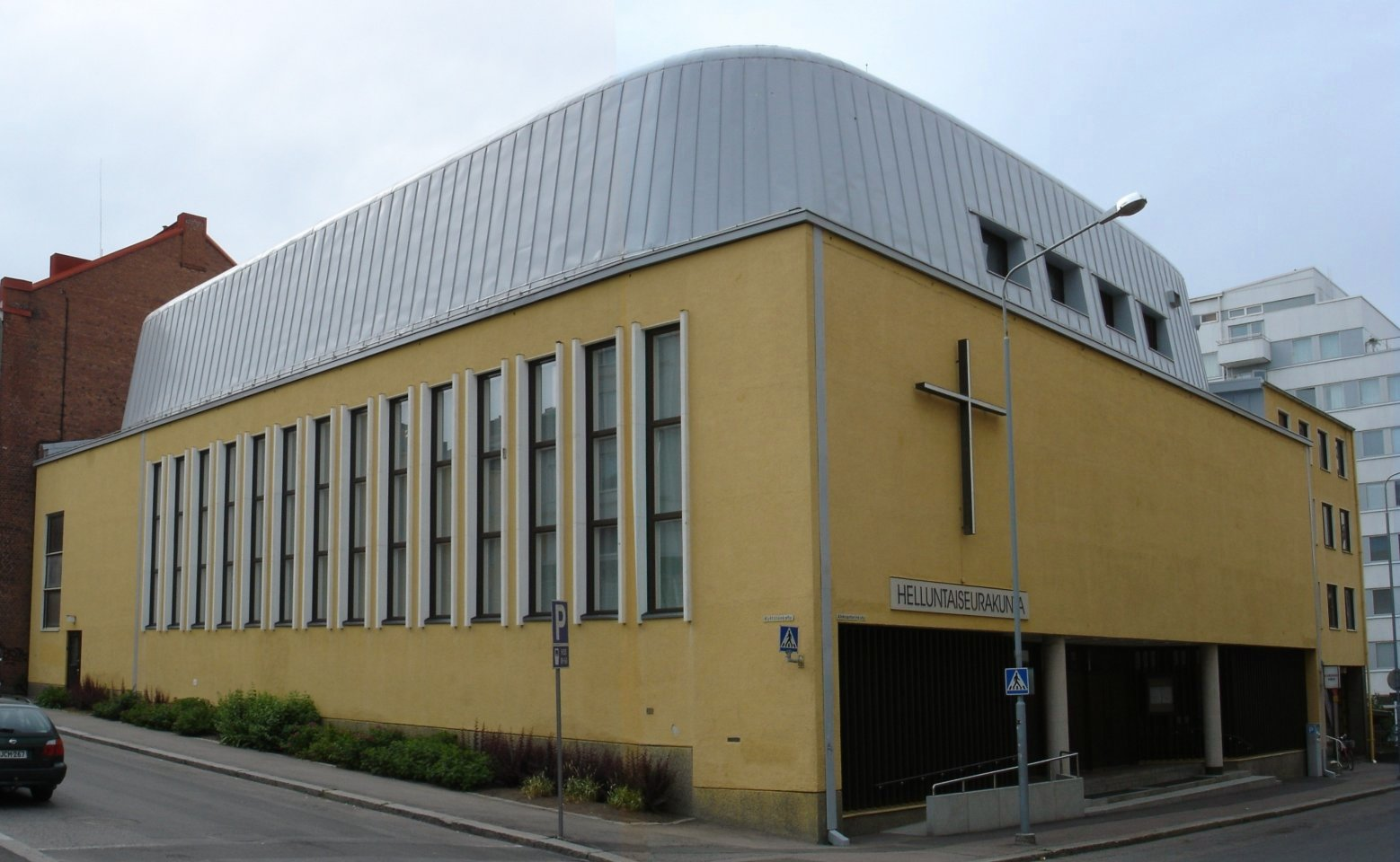 Saalem, the pentecostal church of Tampere